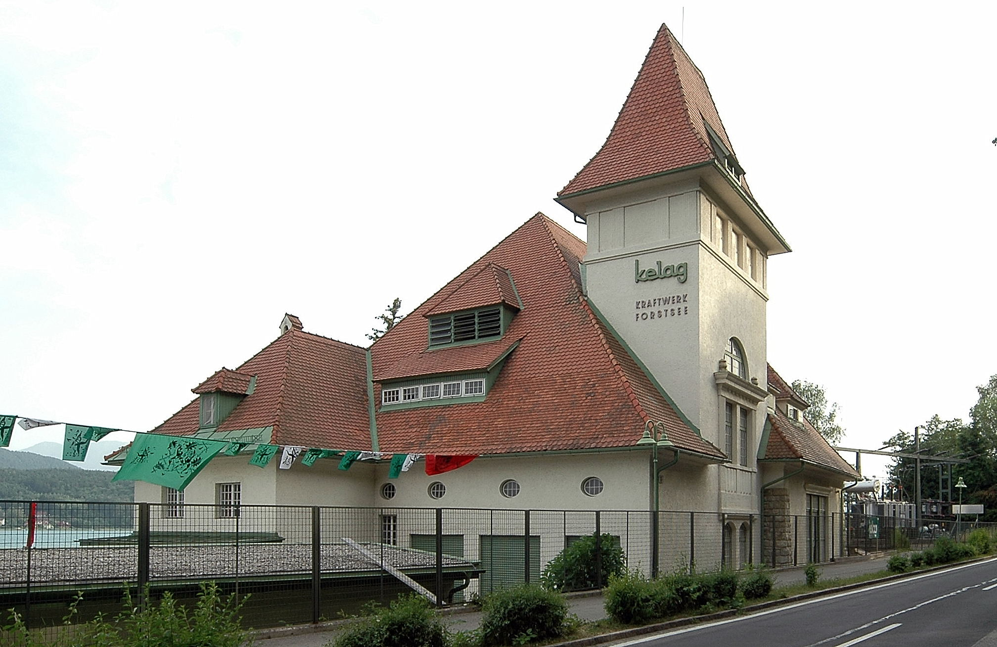 Electric power plant Forstsee in Saag 15, designed by Prof. Franz Baumgartner, municipality Techelsberg, district Klagenfurt Land, Carinthia, Austria, EU